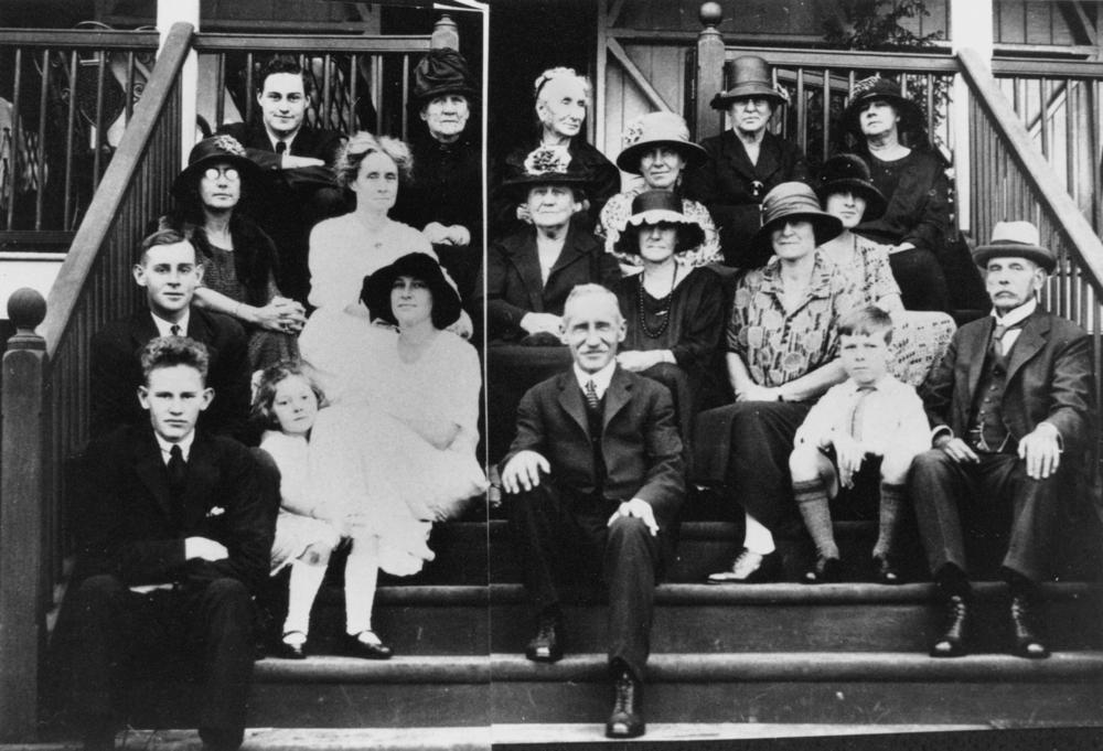 Campbell Family on the steps of Murrumba, May 1924 Back row, left to right: Langlands Armour, Mrs J. D. Campbell, Mrs Tom Petrie, Mrs J. M. Campbell, Mrs G. P. Campbell. Second back row, left to right: Mrs Victor Campbell, Mrs G. Stuart (Constance Petrie), Mrs James Forsyth, Dr. Doris Philp (who married New Zealand Gallipoli veteran Richard Black in 1925), Edna Campbell. Second front row, left to right: James Campbell, Hazel Campbell, Mrs Rex Kennedy (nee Campbell), Mrs Norma Palmer (nee Campbell). Front row, left to right: Walter or Rollo Petrie, Morag Campbell, G. P. Campbell, Ian Palmer, James Forsyth, MLA. (Description supplied with photograph.).